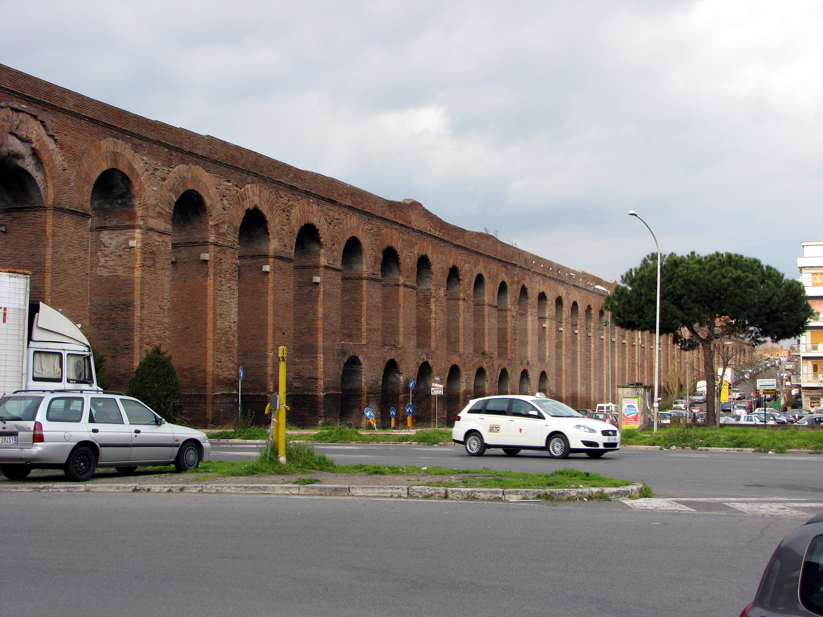 View of the Aqua Alexandrina near Viale Palmiro Togliatti north of Via Casilina in the district of Centocelle, Rome, Italy